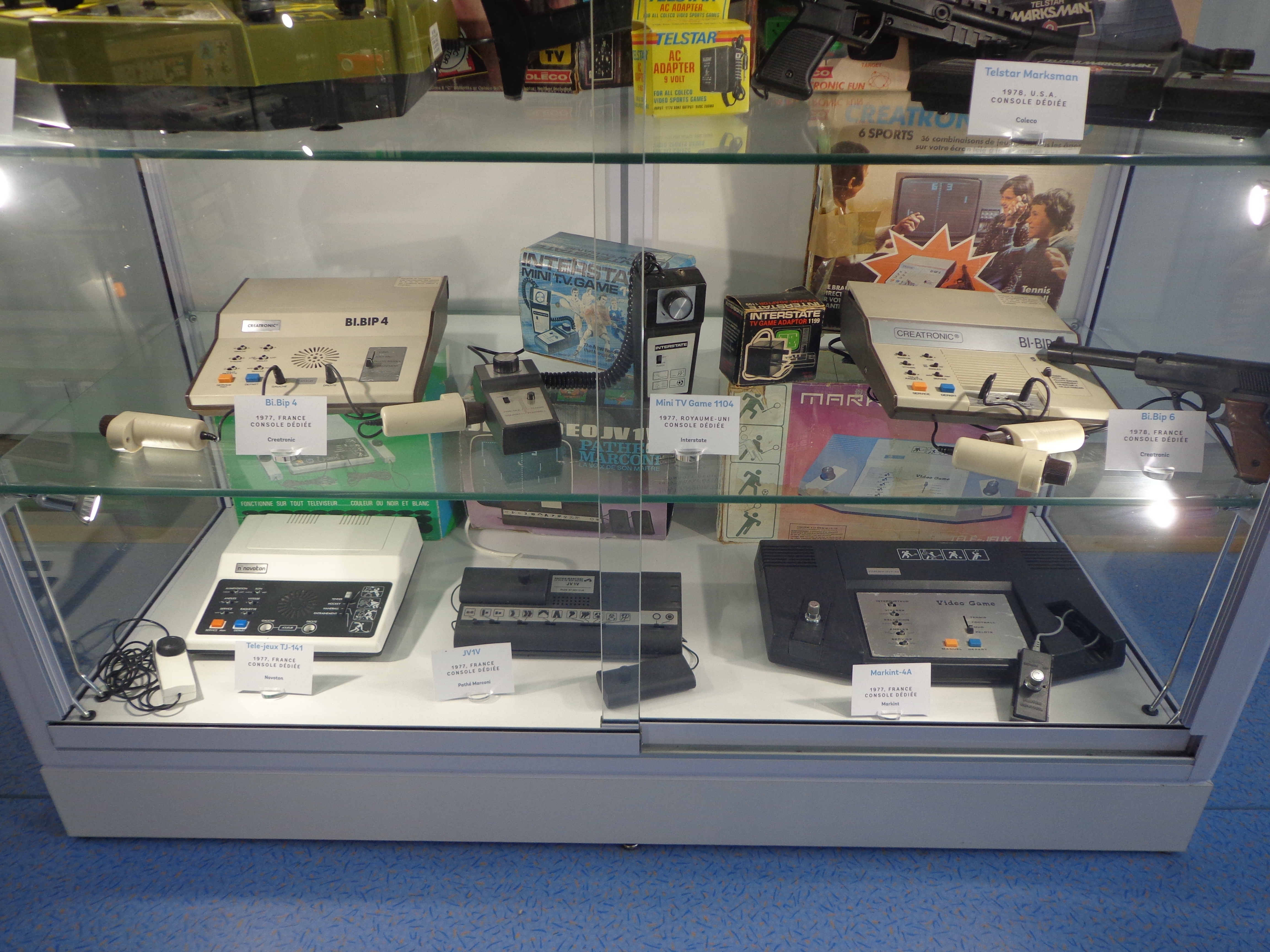 The Pixel Museum in Schiltigheim (a suburb of Strasbourg, France), is dedicated to the history of video games.